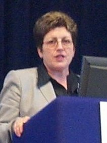 Dame Pauline Green, speaking at the annual general meeting of the Oxford, Swindon and Gloucester Co-operative Society Limited, held at the Royal Agricultural College, 2005-04-23. Copyright © 2005 Kaihsu Tai.